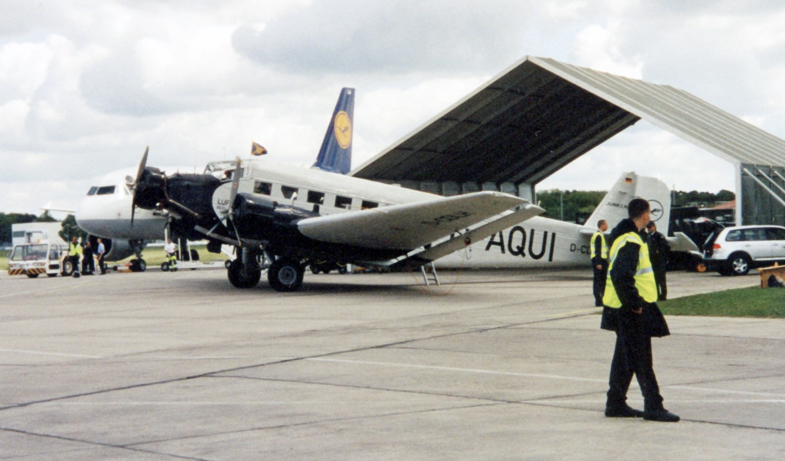 Description : Junkers JU-52 auf der ILA 2004 Source : selbst fotographiert Date : created 2004 Photographer : Xvlun Upload : 19:15, 26. Nov 2004 Xvlun